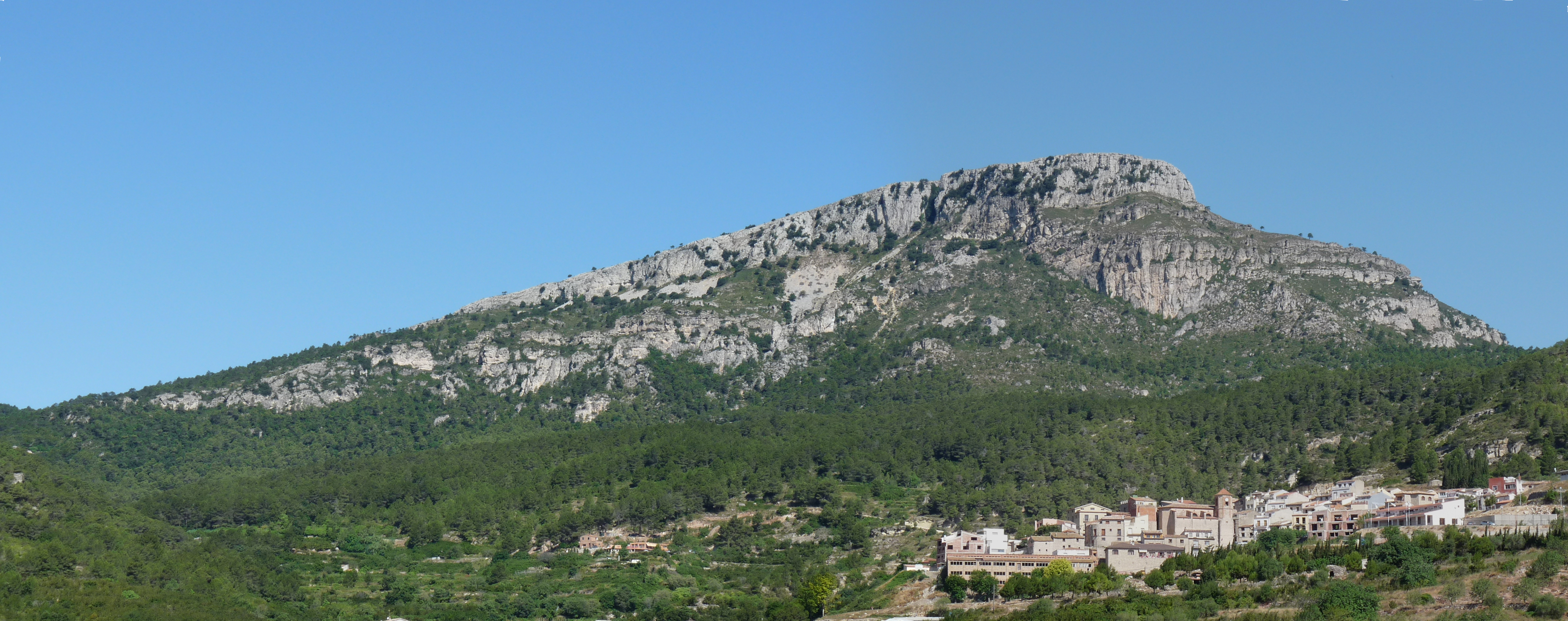 Colldejou on the slope of "la mola"